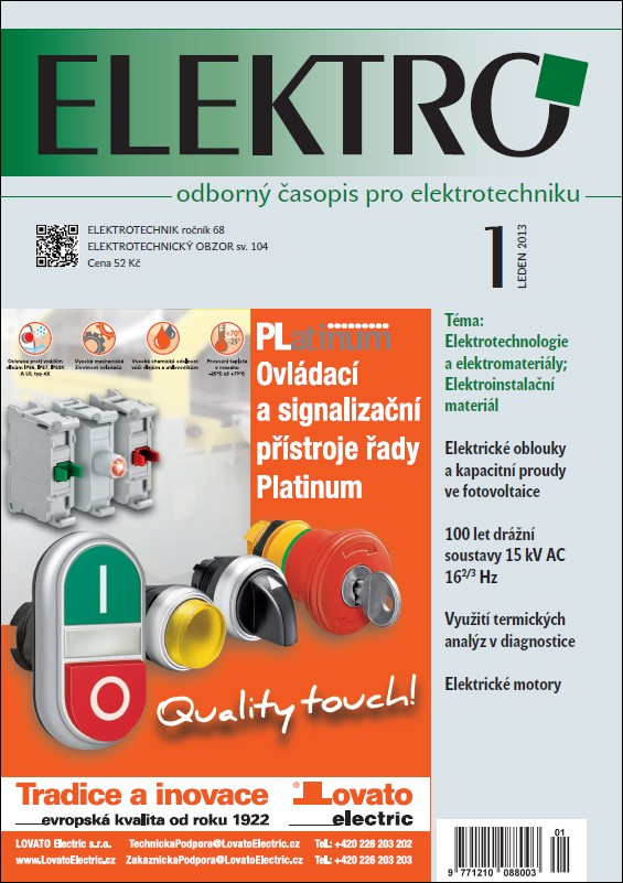 Cover of magazine Elektro